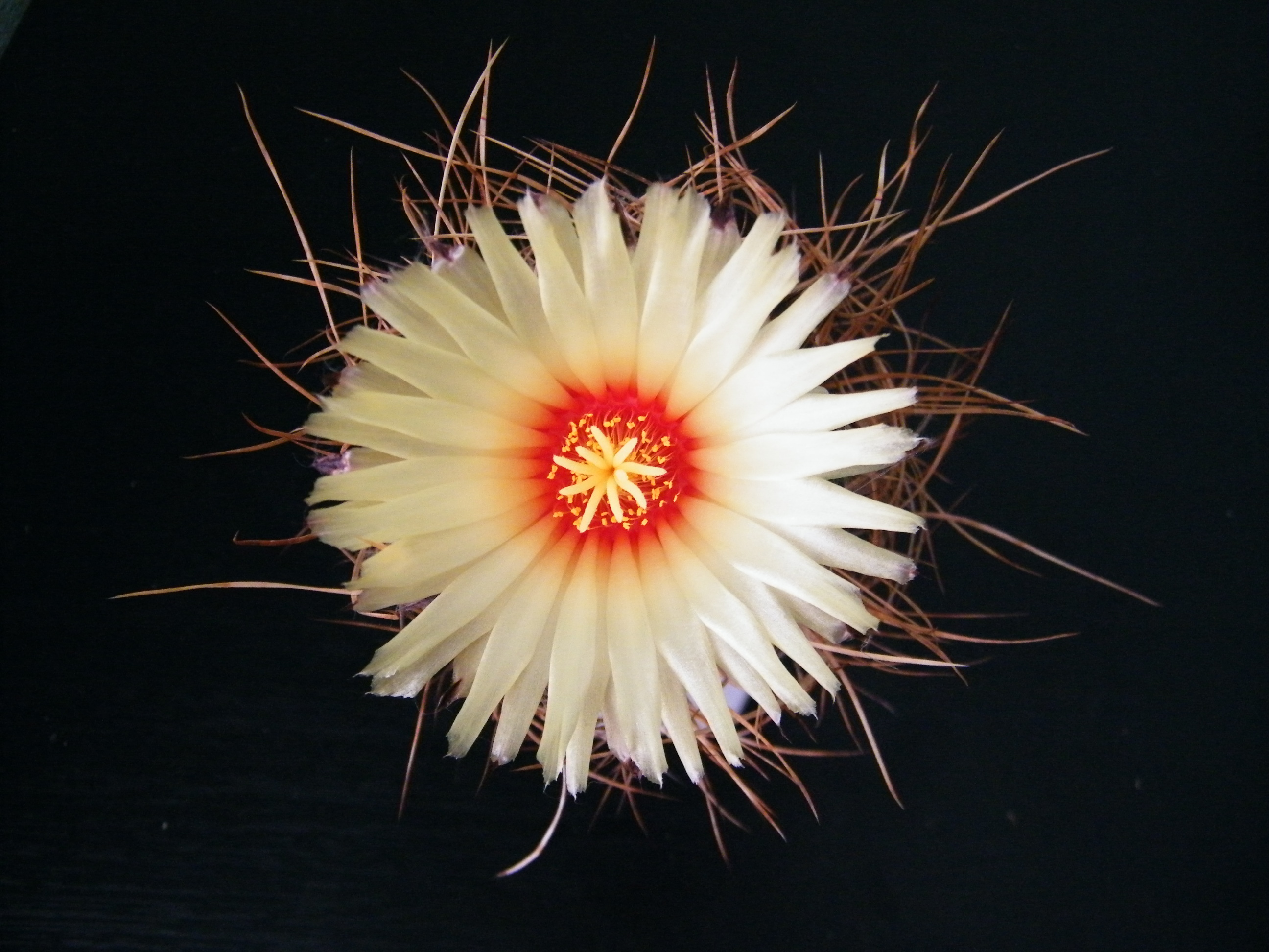 Astrophytum capricorne var. senile